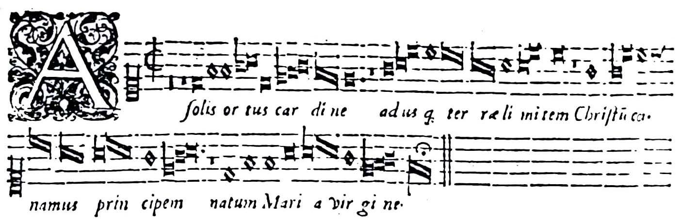 A solis ortus cardine, early christian tune A solis ortus cardine, frühchristliche Melodie